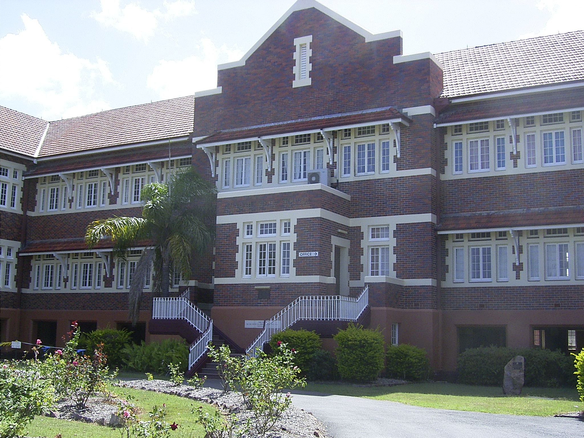 Nundah State School, Nundah, Queensland